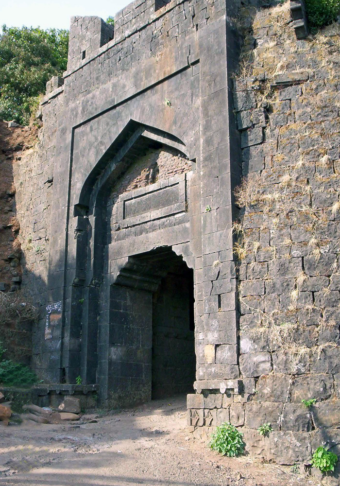 Tin darwaza at Panhala Fort, Maharashtra, India